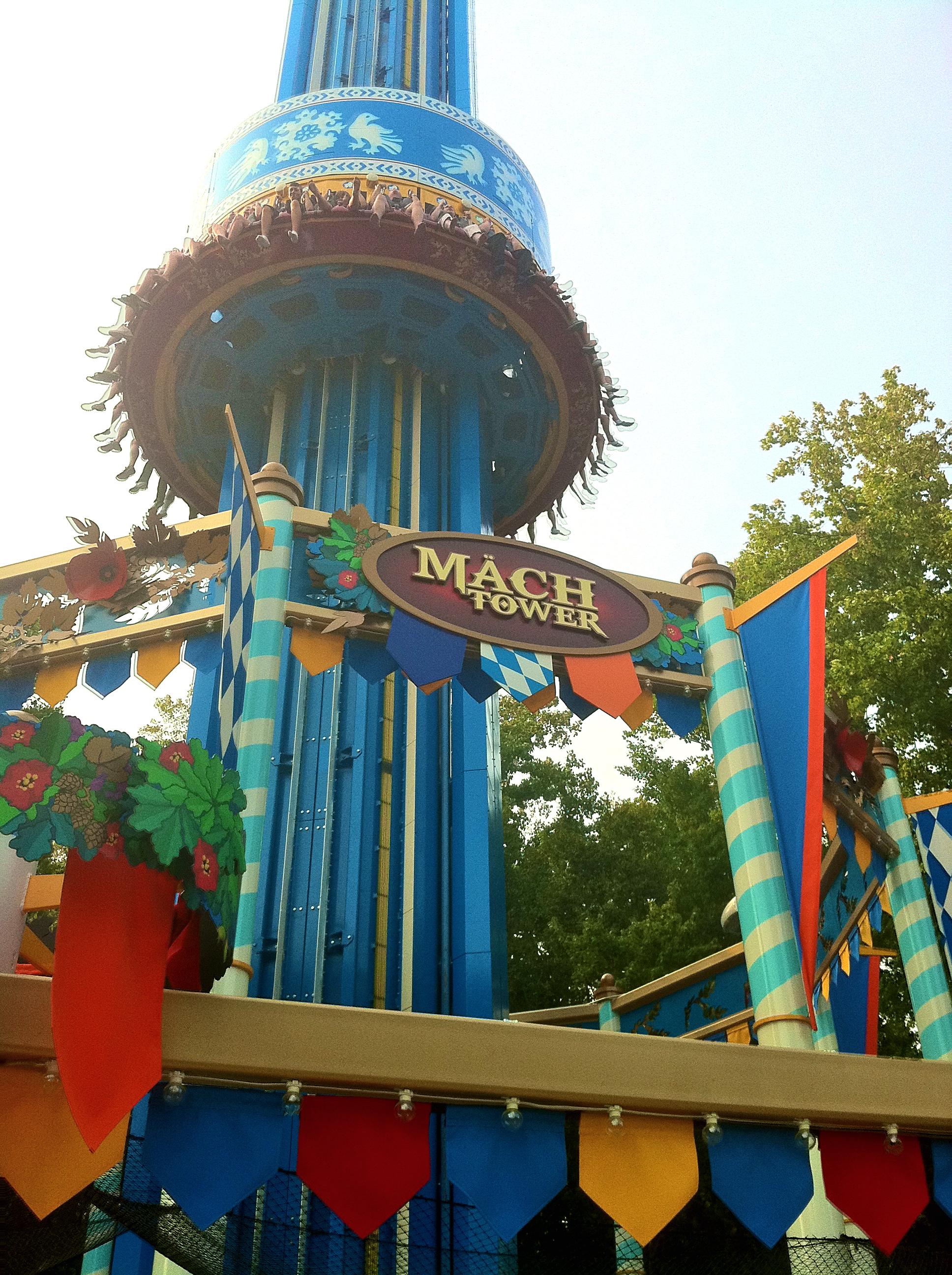 Mach Tower at Busch Gardens WIlliamsburg